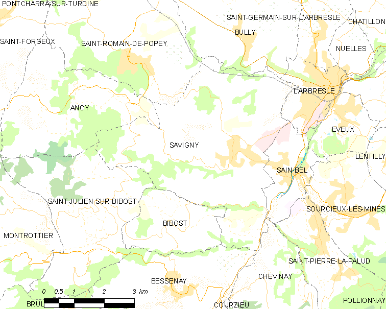 Map of French municipality